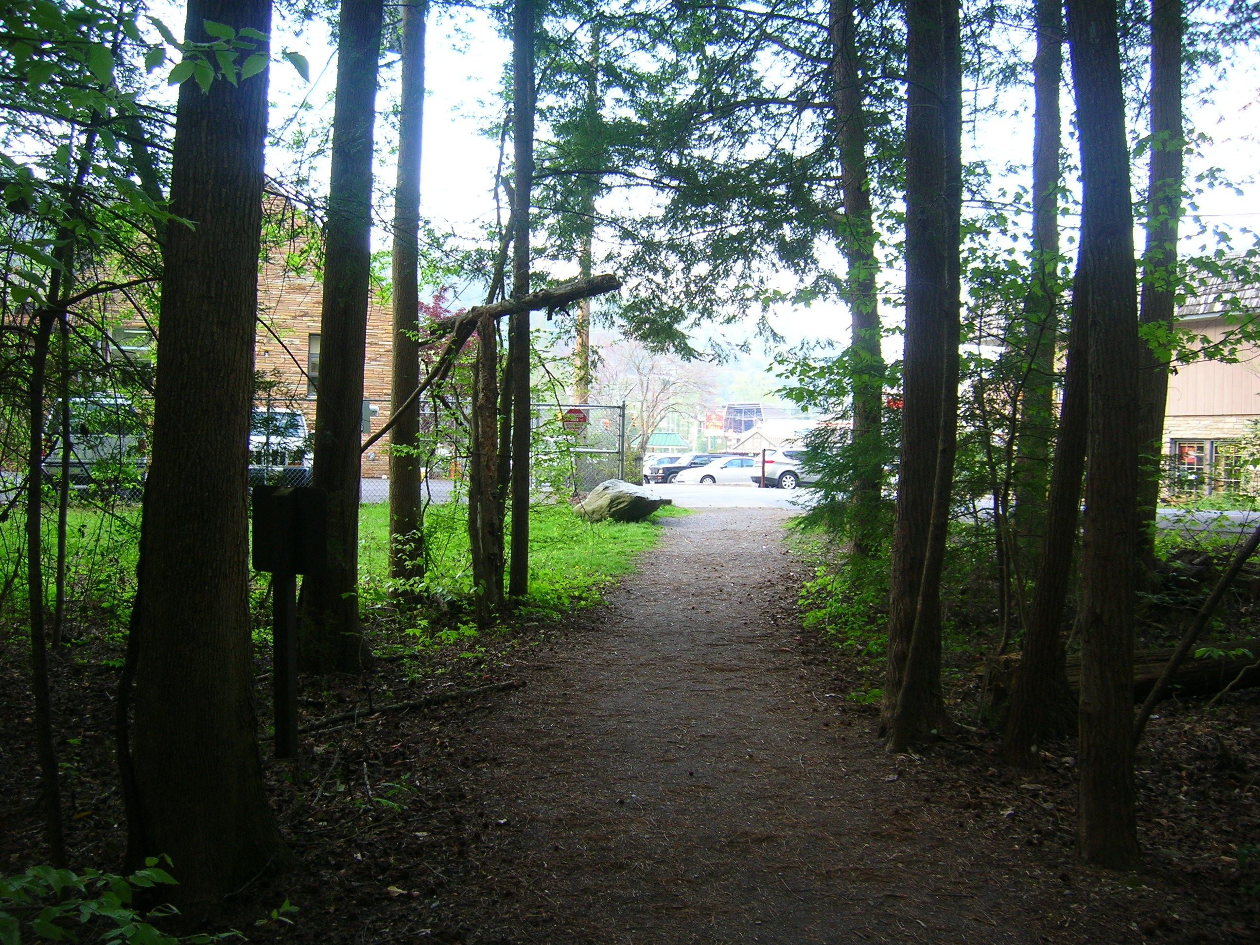 The Gatlinburg Trail literally extends to the foot of the Town of Gatlinburg, Tennessee and the border of the Great Smoky Mountains National Park. Photo taken by myself, Scott Basford, in April of 2006.